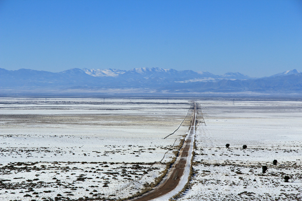 The Lund Highway runs from Lund to Cedar City in Iron County, Utah. The is the gravel section crossing the Escalante Desert to Lund.